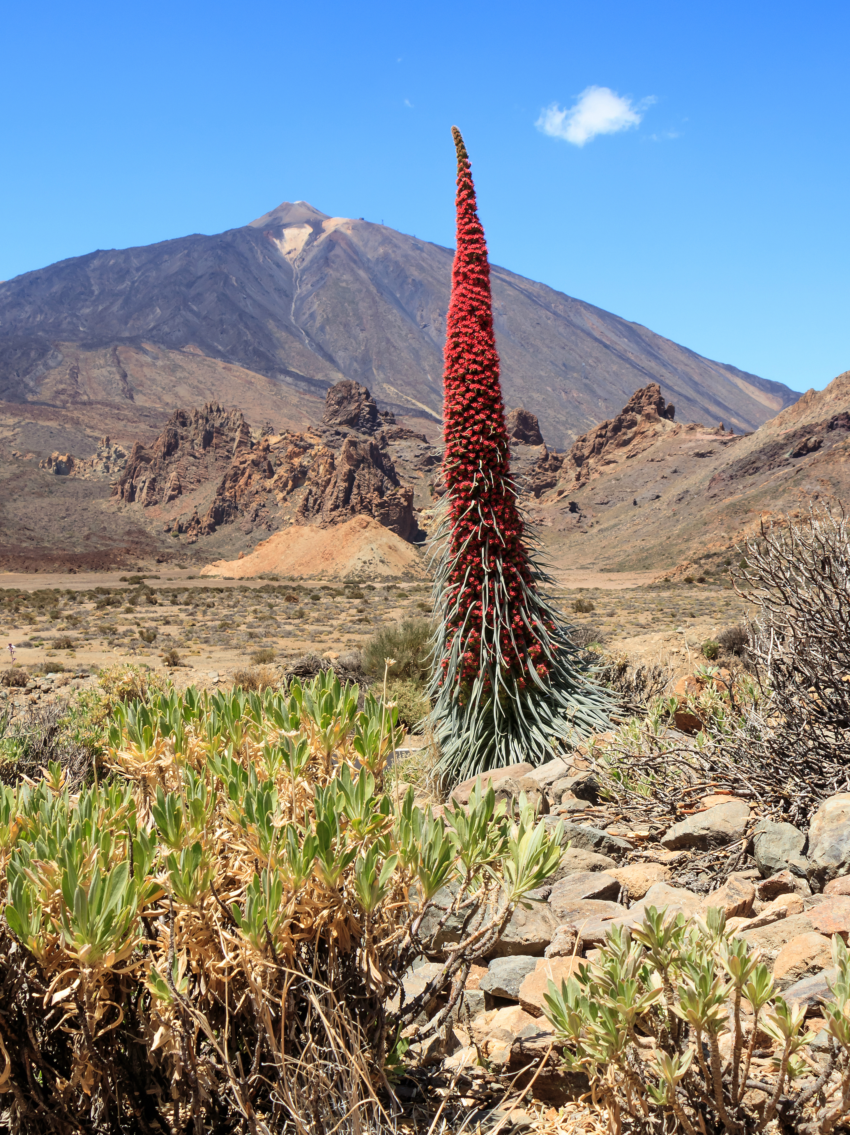 Echium wildpretii wildpretii H.Pearson ex Hook.f. (1902), Tower of Jewels, with the Roques de García and Mount Teide, Caldera de las Cañadas, Tenerife, Canary Islands, Spain.